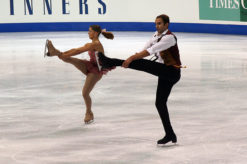 Tiffany Vise & Derek Trent perform side-by-side spins at the 2006 Skate Canada International.